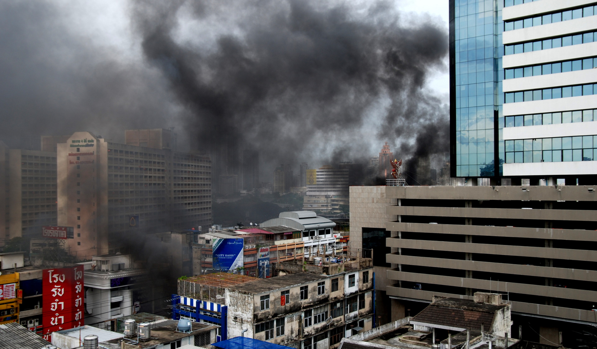 Black smoke from burning tyres in front of Lumpini Tower and its garuda rises up from Rama 4.